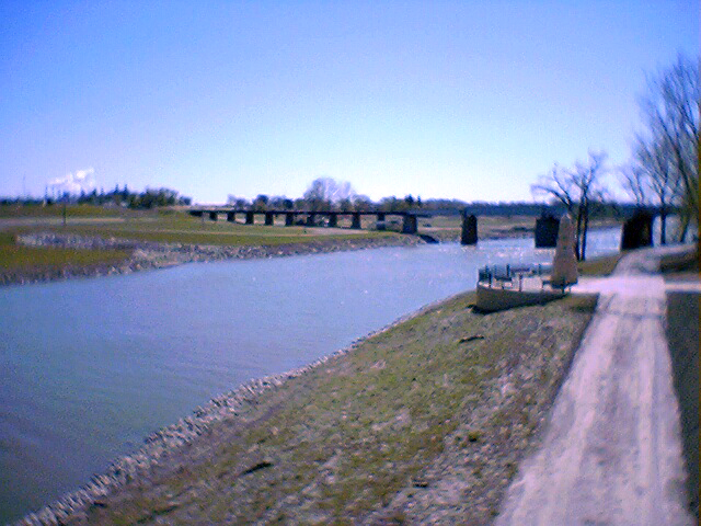 Red River of the North in Grand Forks. Picture taken from the Sorlie Memorial Bridge. Notice the cairn commemorating the 1997 flood on the right (west) bank. Picture taken by Alexwcovington and released under the GFDL.